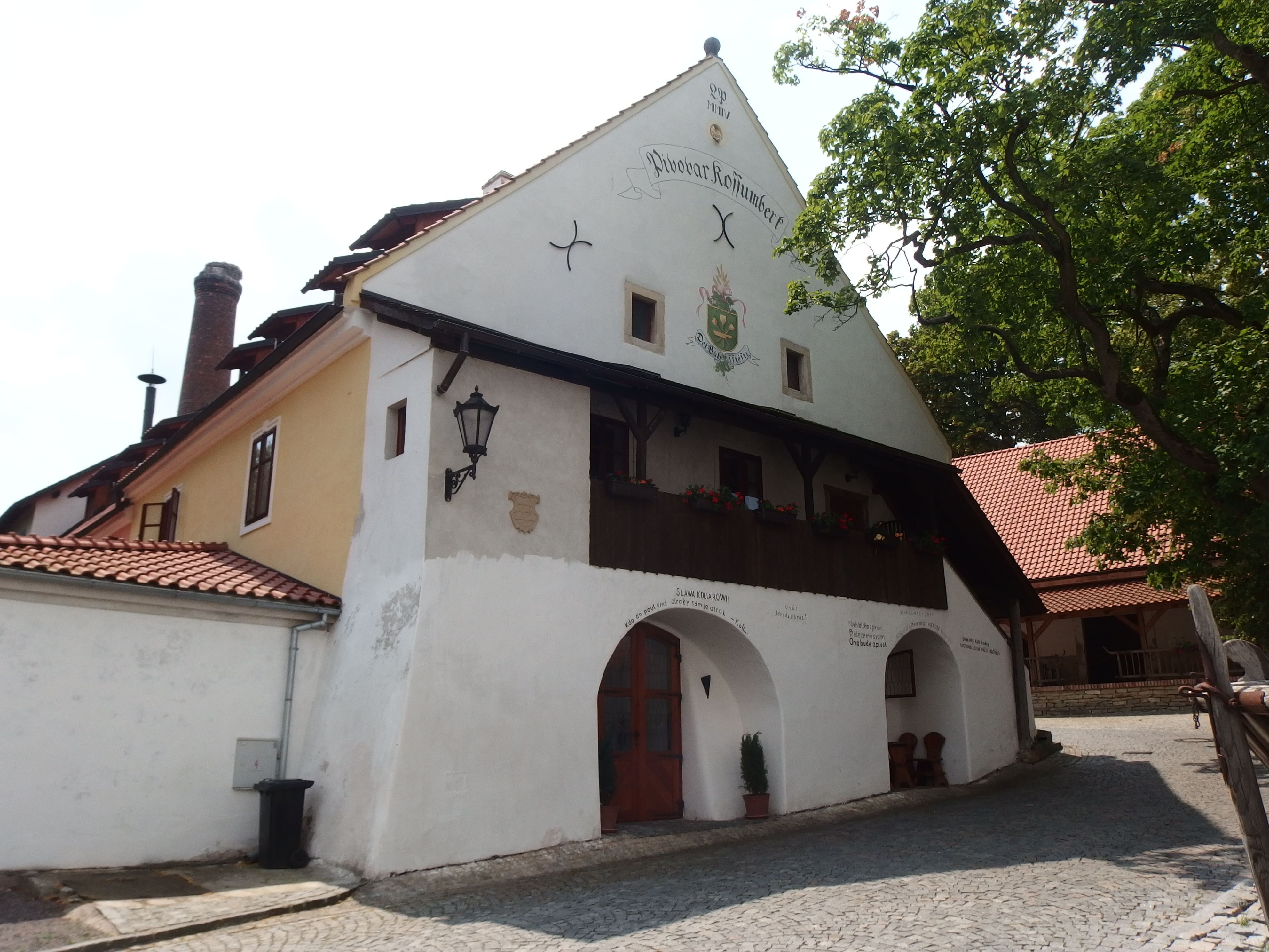 Luže, Chrudim District, Czech Republic. Košumberk Castle, brewery.